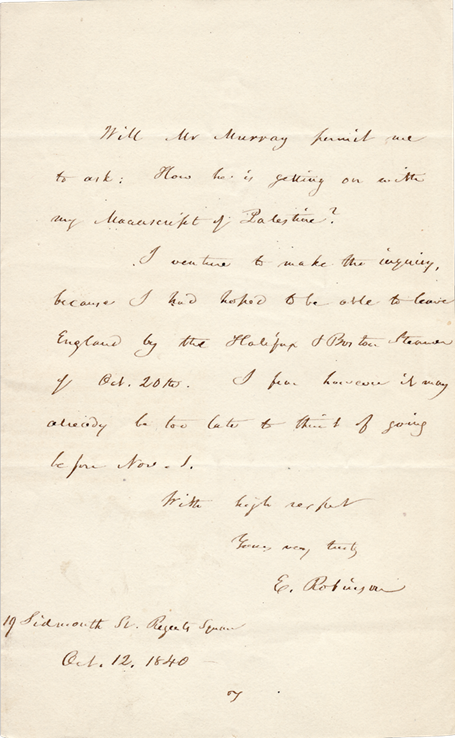 Signed E. Robinson, 19 Sidmouth St., Regents Square, October 12 ,1840. To Mr. Murray